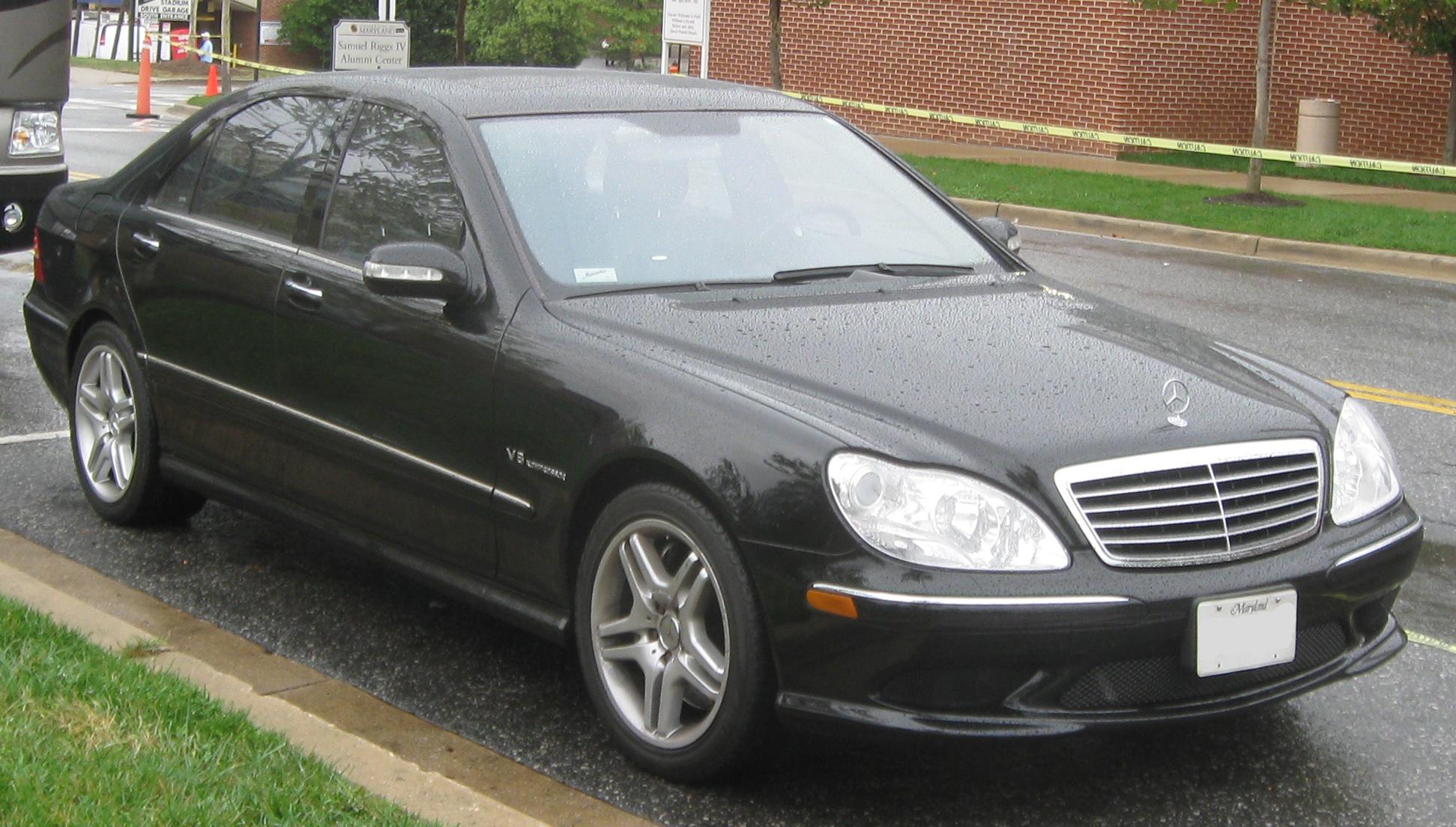 Mercedes-Benz S55 AMG photographed in College Park, Maryland, USA.